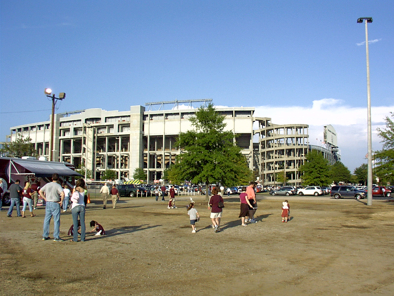 Outside View of Legion Field